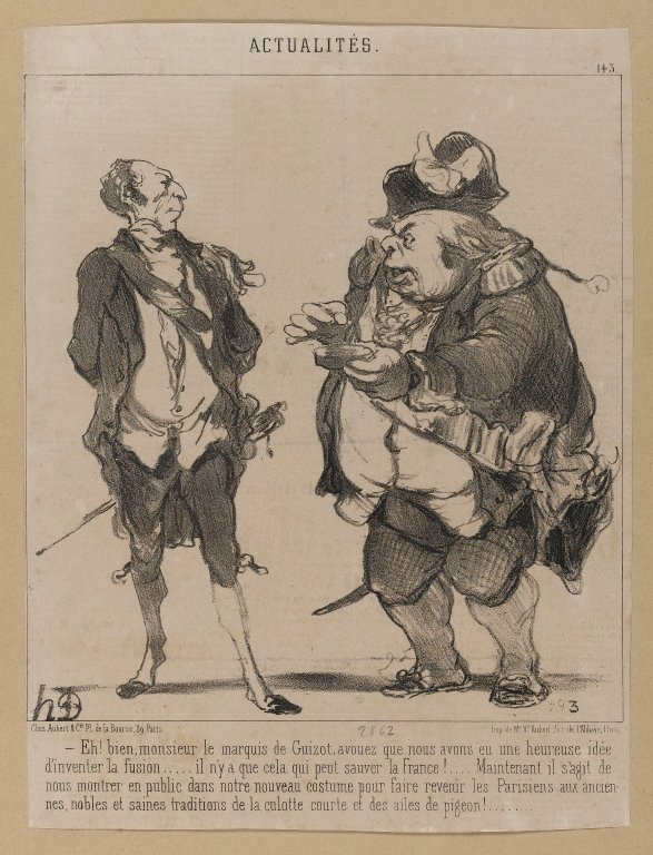 Part of the series Actualités, no. 143. Published in Le Charivari, 13 June 1851. Depicted people: François Guizot and Pierre-Antoine Berryer